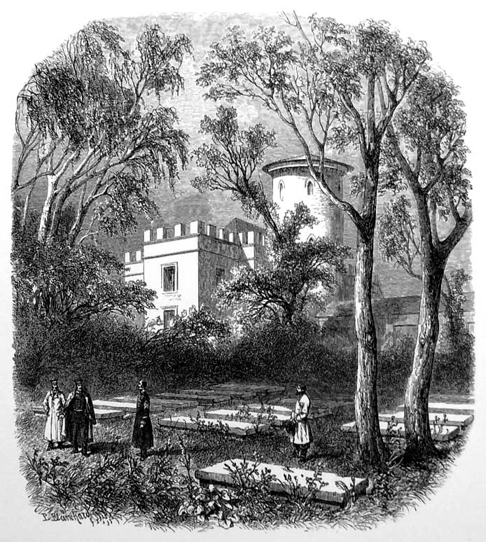 Pensioners Stables and Horse Cemetery in Aleksandrovsky Park